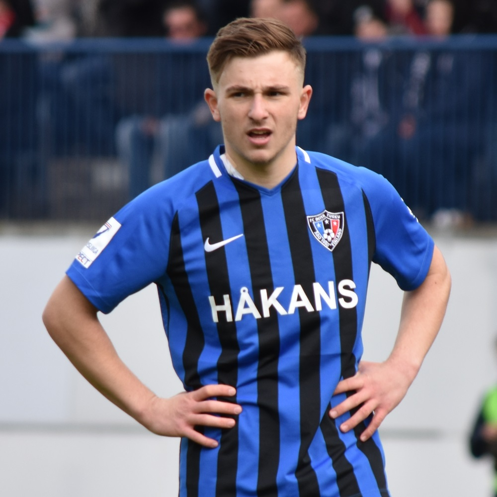 Football player Albion Ademi (FC Inter Turku)